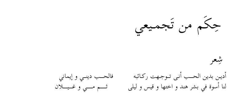 Arabic text using XeTeX